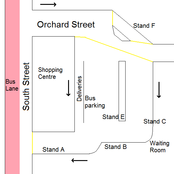 A diagram of the layout of Newport bus station on the Isle of Wight. The bus station is the section bordered by the yellow lines, the red is the South Street contra-flow bus lane.